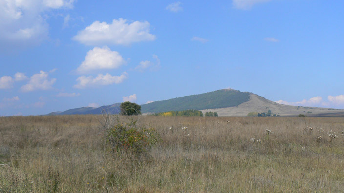 Viskyar mountain in the central-west part of Bulgaria